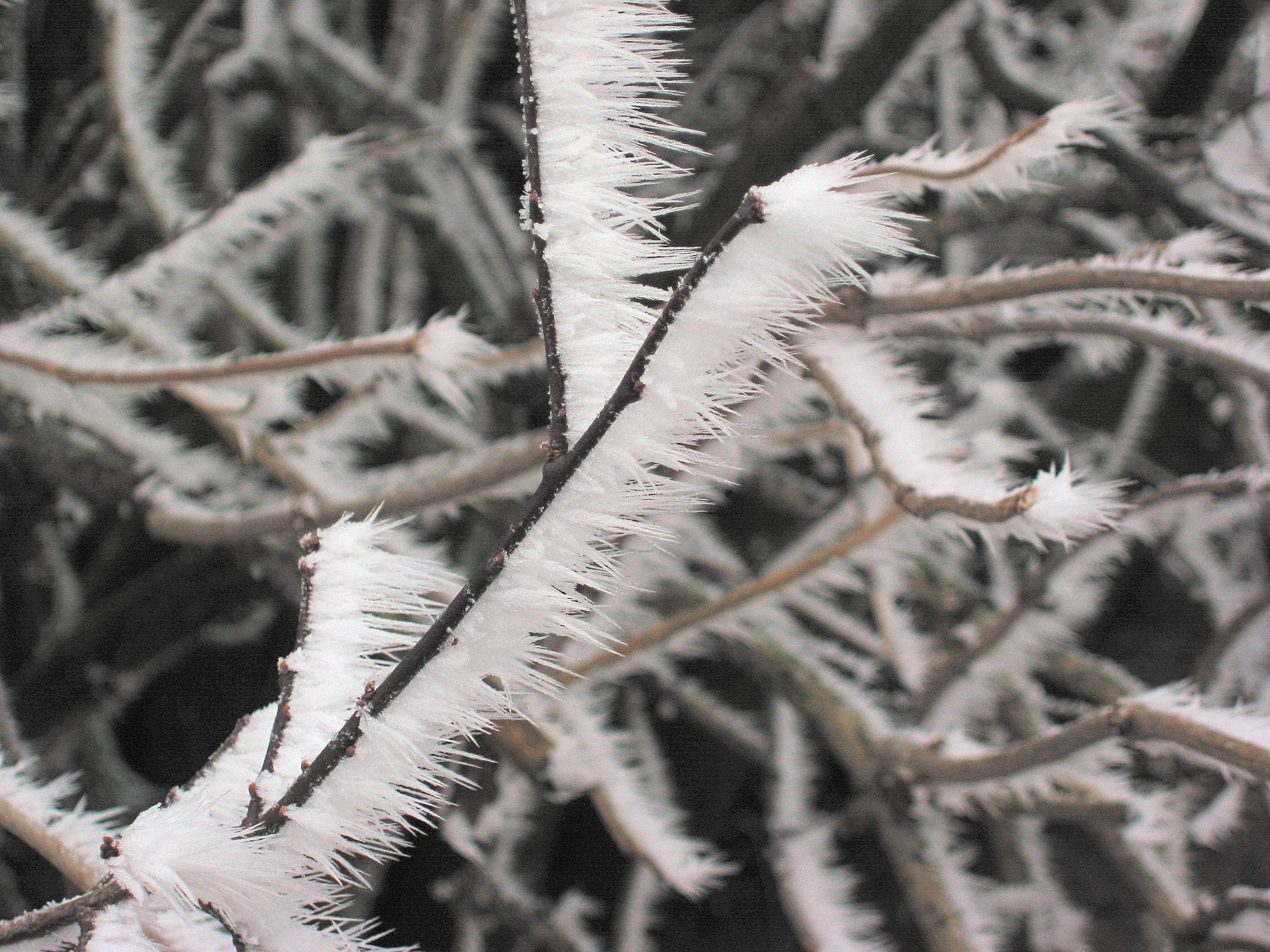 Hoar frost (Rijp)